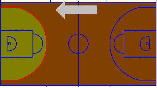 3 points area